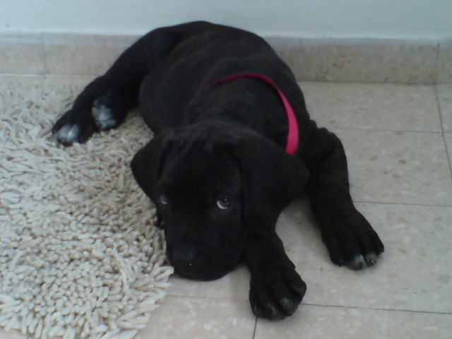 Cane corso puppy